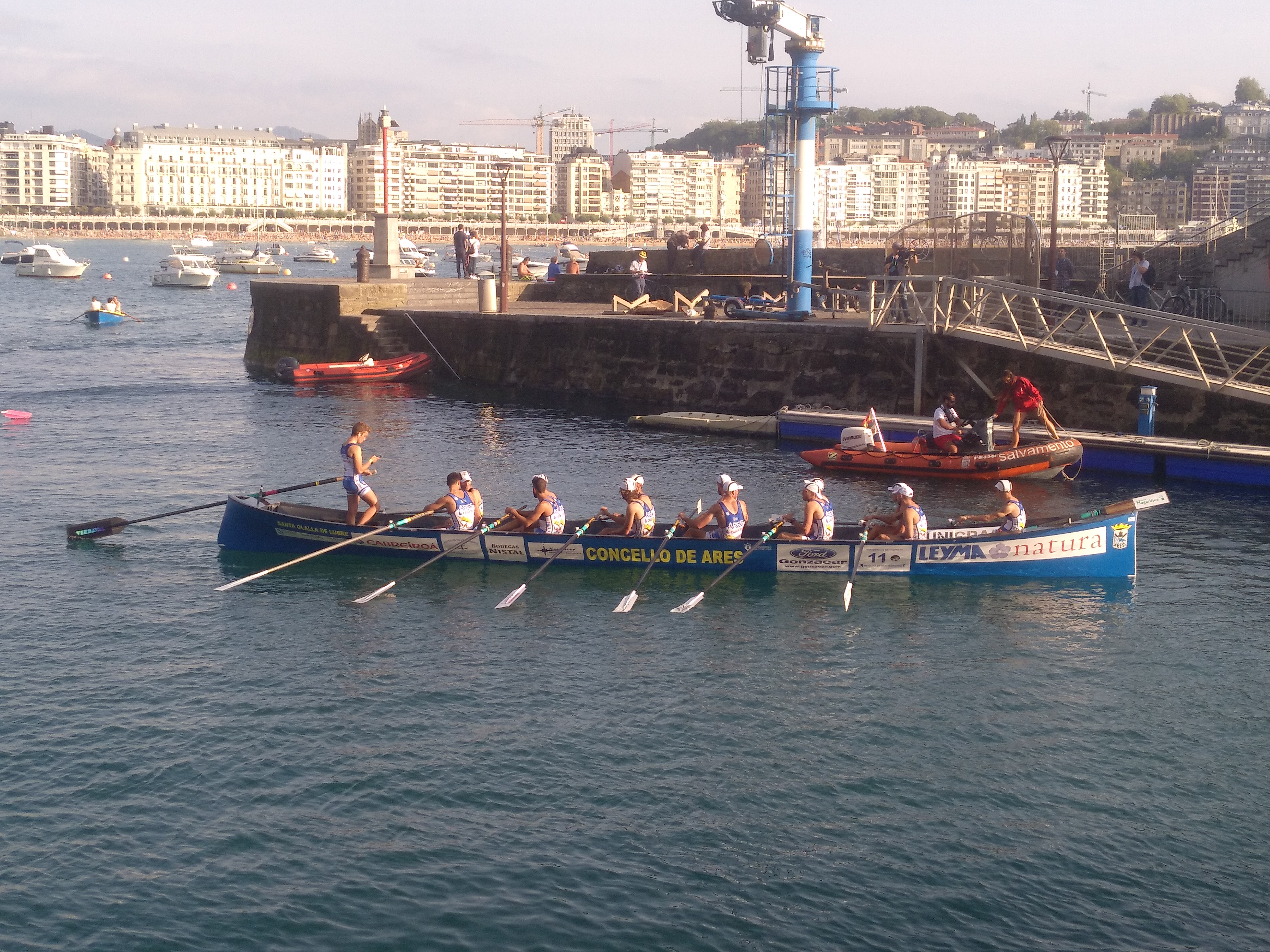 Club de Remo Ares, Flag of La Concha, 2018